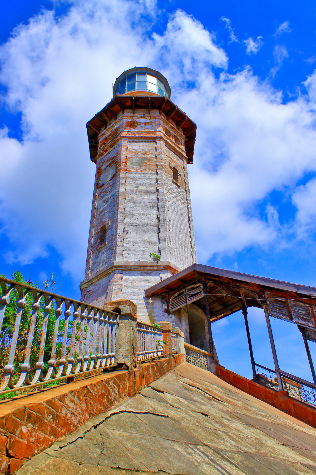 Cape Bojeador Lighthouse, Burgos, Ilocos Norte, Philippines